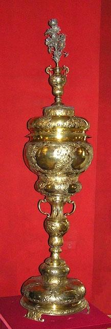 Silver goblet presented to the Tsar of Russia by John III Sobieski King of Poland, 17th century, over 1m height.